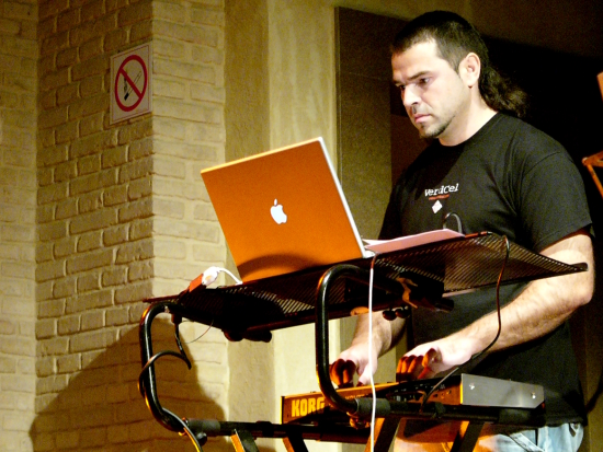 Alcoi visual artist Dani Olmo veejaying live with VerdCel in Valencia